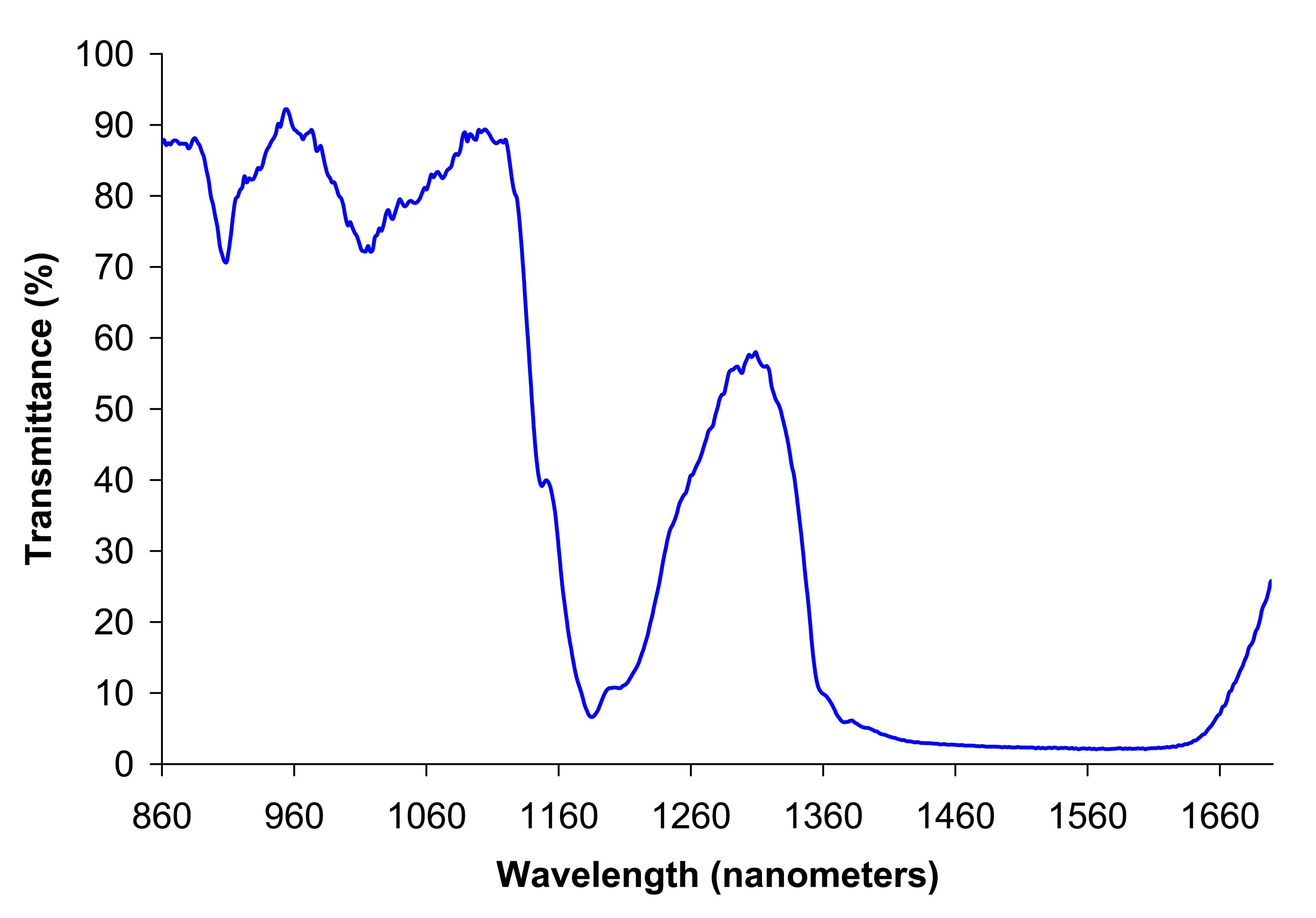 Ethanol near IR spectrum. I took this spectrum using an Ocean Optics near IR (NIR-512) temperature-regulated InGaAs detector spectrometer [1] with IR fiber optic light guide. This is a very rough spectrum and should not be used for any kind of quantitative data whatsoever. I took it by shining the light from a halogen lightbulb through a tiny (~20ml) beaker of liquid ethanol (~2cm liquid optical path) and into the fiber optic of the spectrometer (I subtracted the spectrum of the empty beaker before taking this one). The spectrometer was not really intended to be used this way and it is a very sloppy way to take a spectrum! Nonetheless, based on comparing it to simillarly taken spectra of water and methanol (and other professionally traken nir ethanol spectra), with the exception of the region between about 1400 and 1600nm (this region is saturated by very strong absorbance), I think it likely fairly accurately shows real features of the NIR spectrum of this compound.